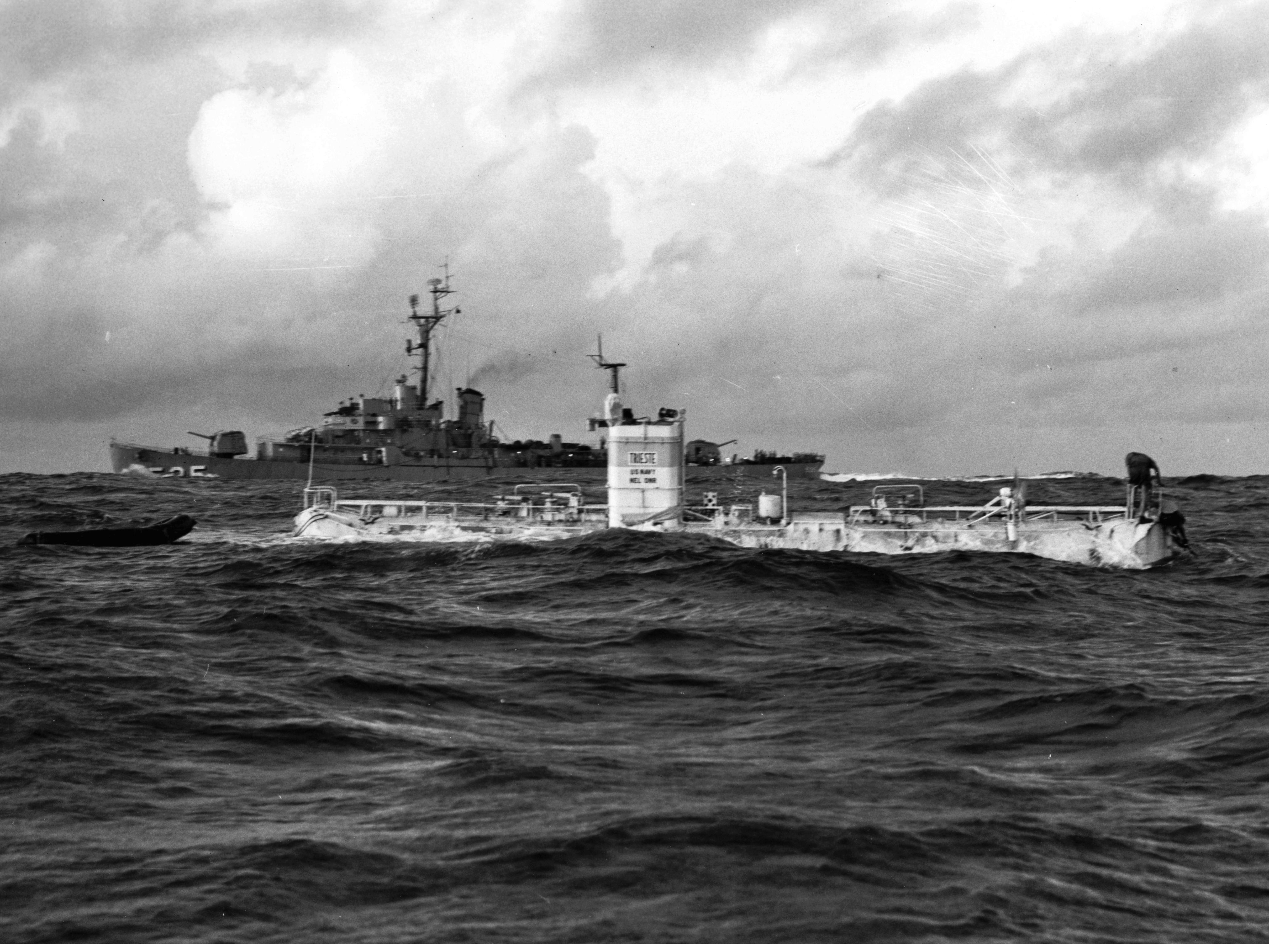 The U.S. Navy Bathyscaphe Trieste, just before her record dive to the bottom of the Marianas Trench, 23 January 1960. The destroyer escort USS Lewis (DE-535) is steaming by in the background.